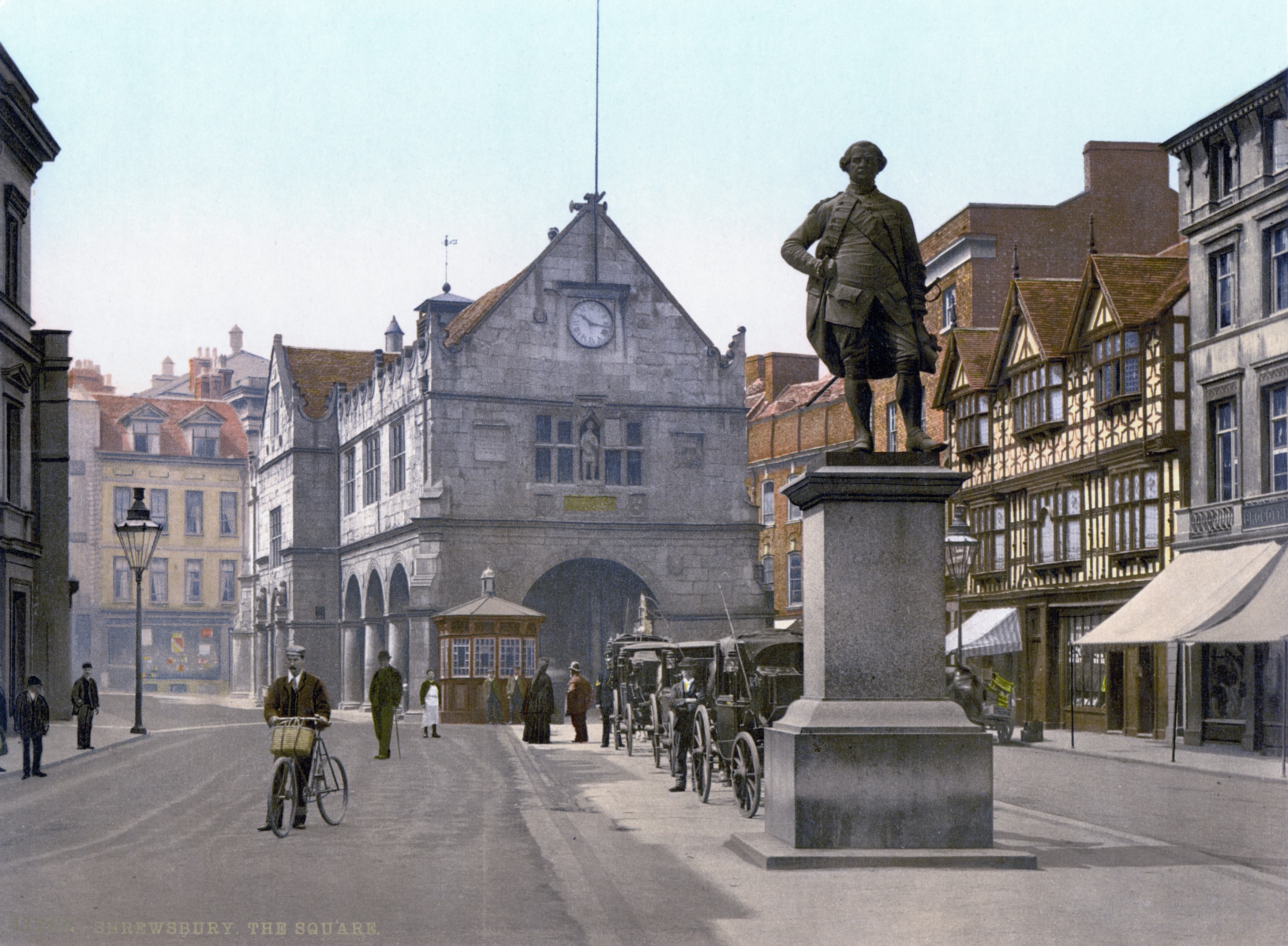 Shrewsbury, England